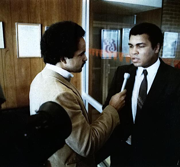 Curt Anderson interviews Muhammad Ali